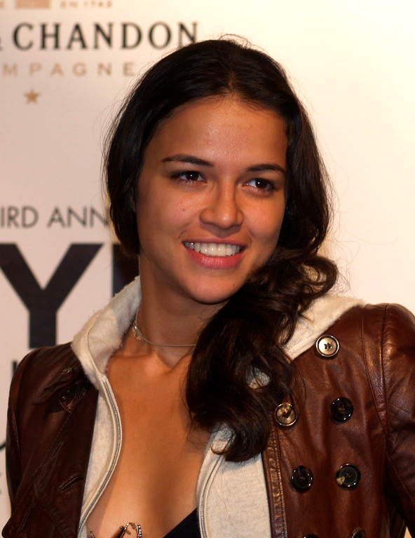 Michelle Rodriguez at the New York Fashion Week Spring 2007.